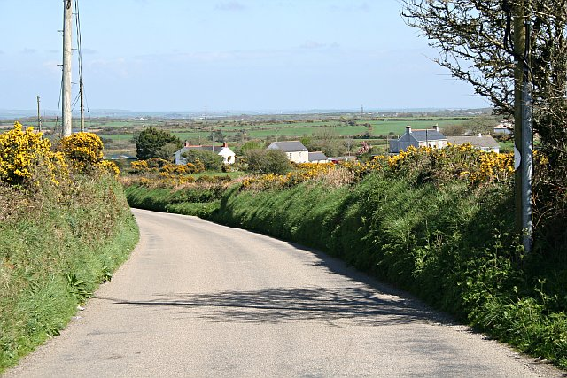 Towards Tresevern. A few houses dotted around in the countryside near this minor road.